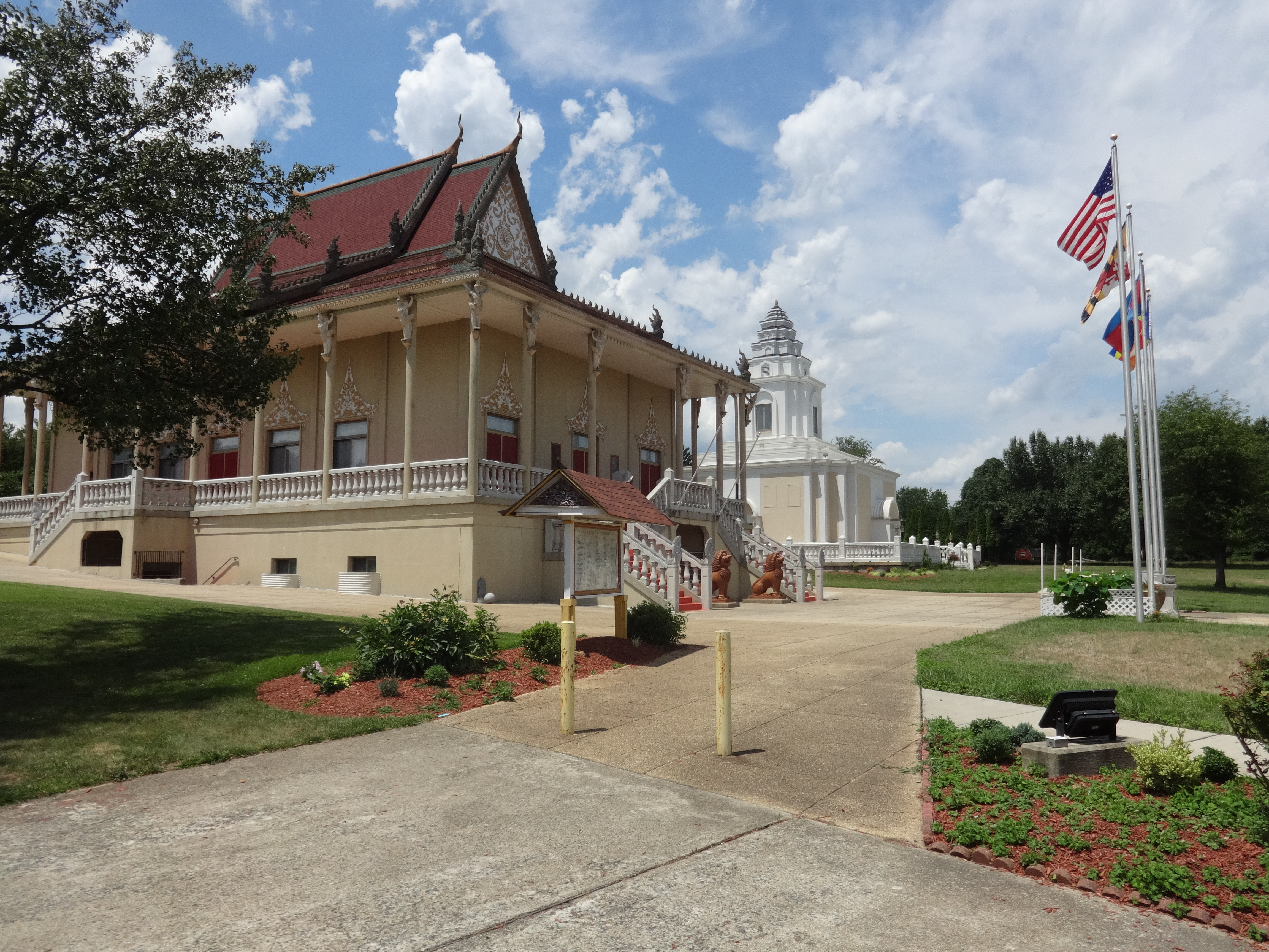 Cambodian Buddhist Society Inc, Silver Spring, Montgomery County, Maryland.